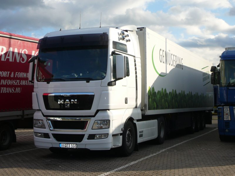 A truck of Stuttgart/Germany based cabbage producer Gemüsering.